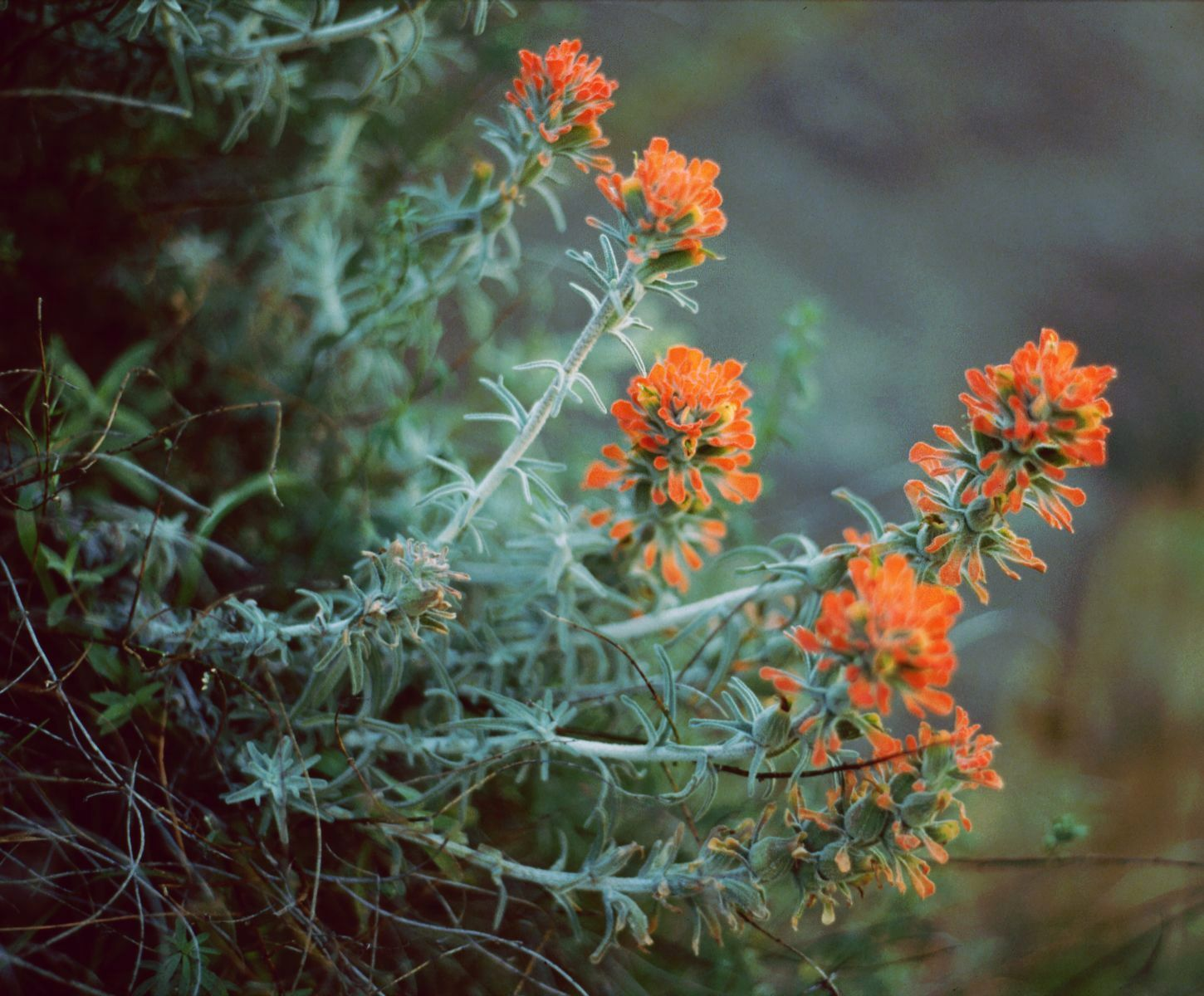 Castilleja foliolosa, Sommerwurzgewächse (Orobanchaceae) - USA, Kalifornien/California: Cache Creek, NW Rumsey, Yolo County, California.